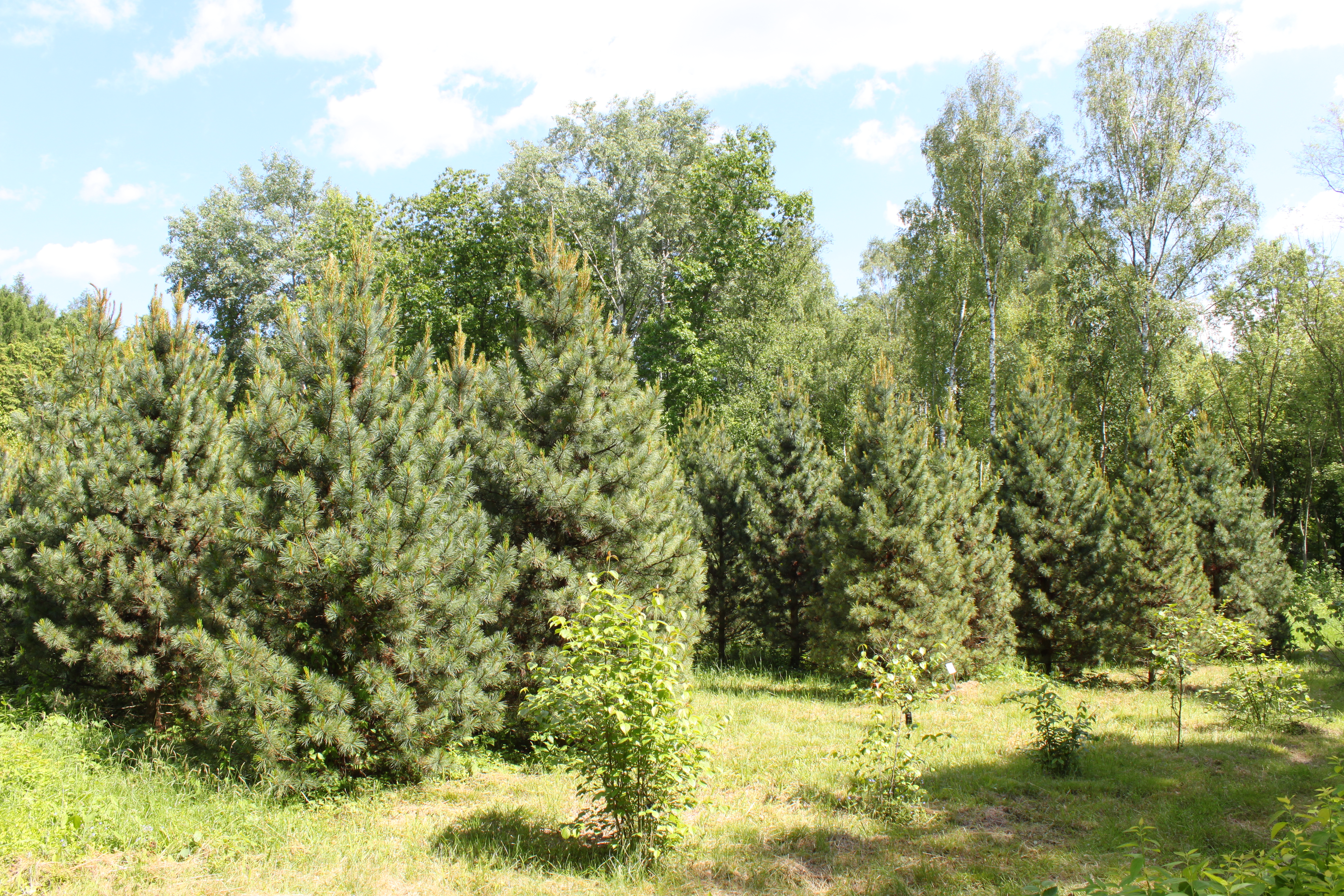 Pinus cembra experimental forest (planted in 1992) in Rogów Arboretum, Poland